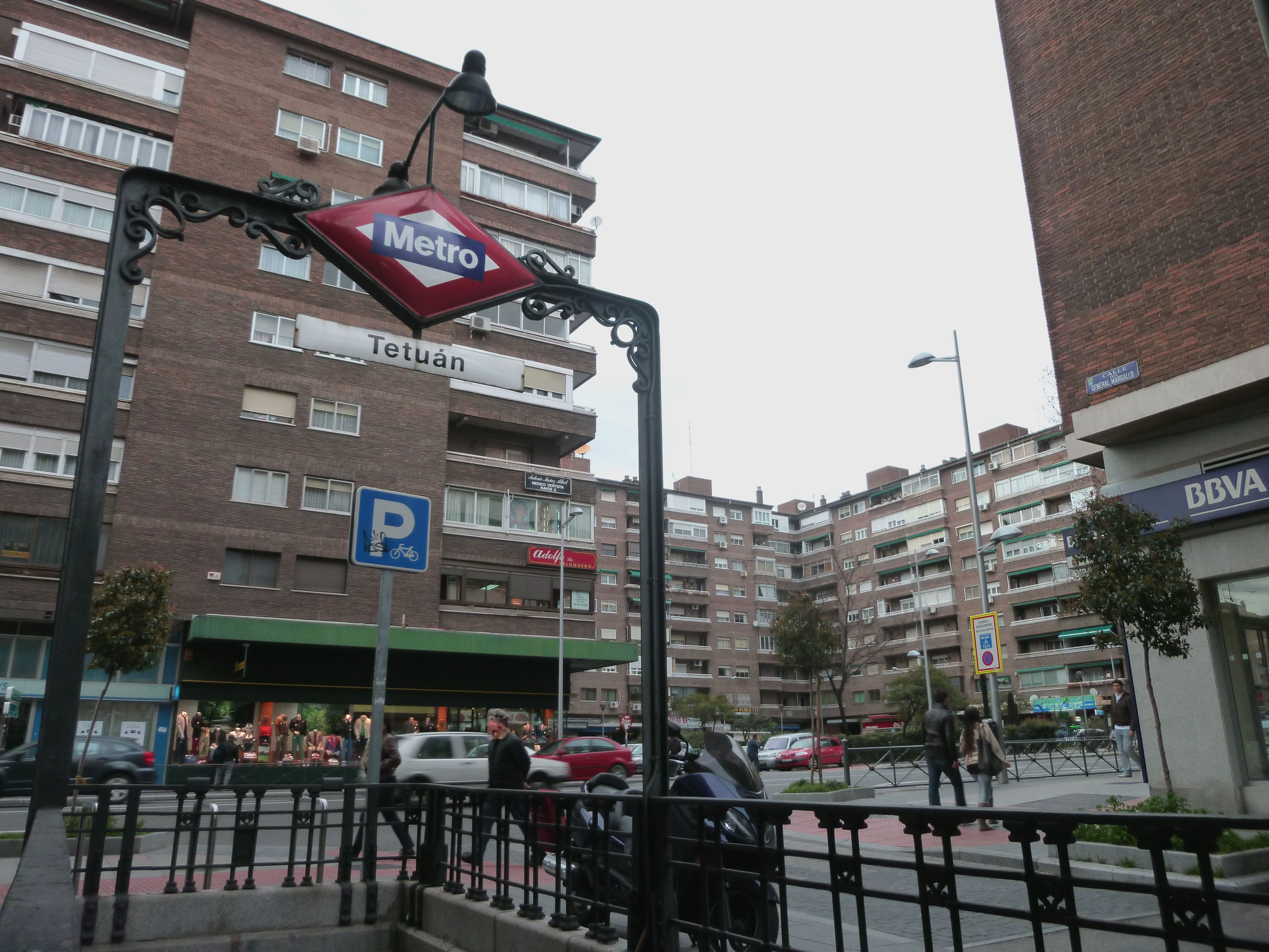 Entrance of Tetuán metro station in Madrid (Spain), at 278 Calle de Bravo Murillo (street) in Tetuán district.